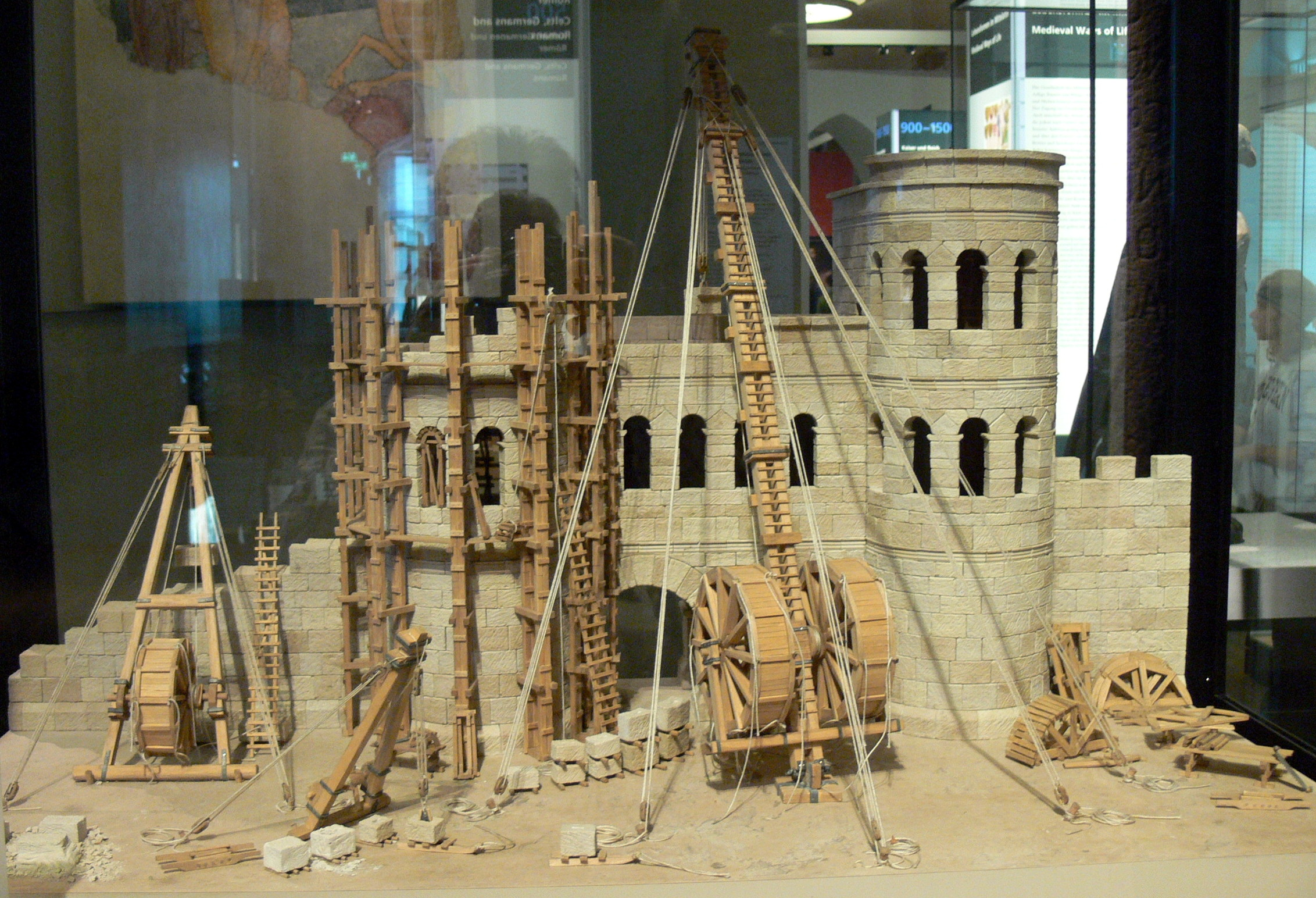 German Historical Museum ( Berlin ). Model of the construction site ( 179 AD ) of the Porta Praetoria in Regensburg .